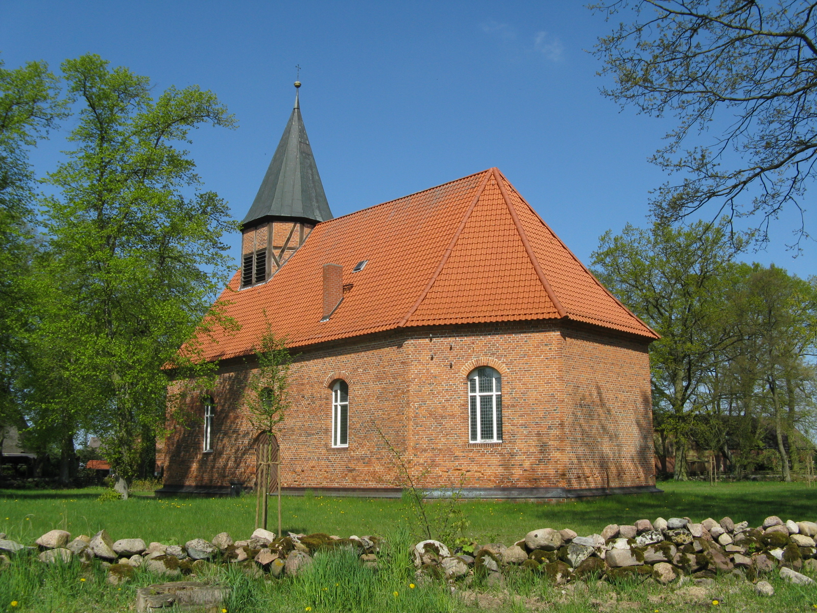 Church in Groß Laasch, disctrict Ludwigslust, Mecklenburg-Vorpommern, Germany